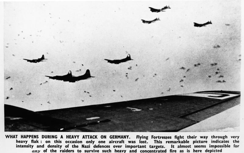 Title: Luftangriff gegen Deutschland Extra information: Amerikanische Bomber Boing B-17 bei Luftangriff unter Beschuss durch deutsche Flak Factual corrections and alternative descriptions are encouraged separately from the original description. Additionally errors can be reported at this page to inform the Bundesarchiv. Original historic description: Bildunterschrift: What happens During a heavy attack on Germany. Flying Fortresses fight their way through very heavy flak: on this occasion only one aircraft was lost. This remarkable picture indicates the intensity and density of the Nazi defences over important targets. It almost seems impossible for any of the raiders to survive such heavy and concentrated fire as is here depicted.